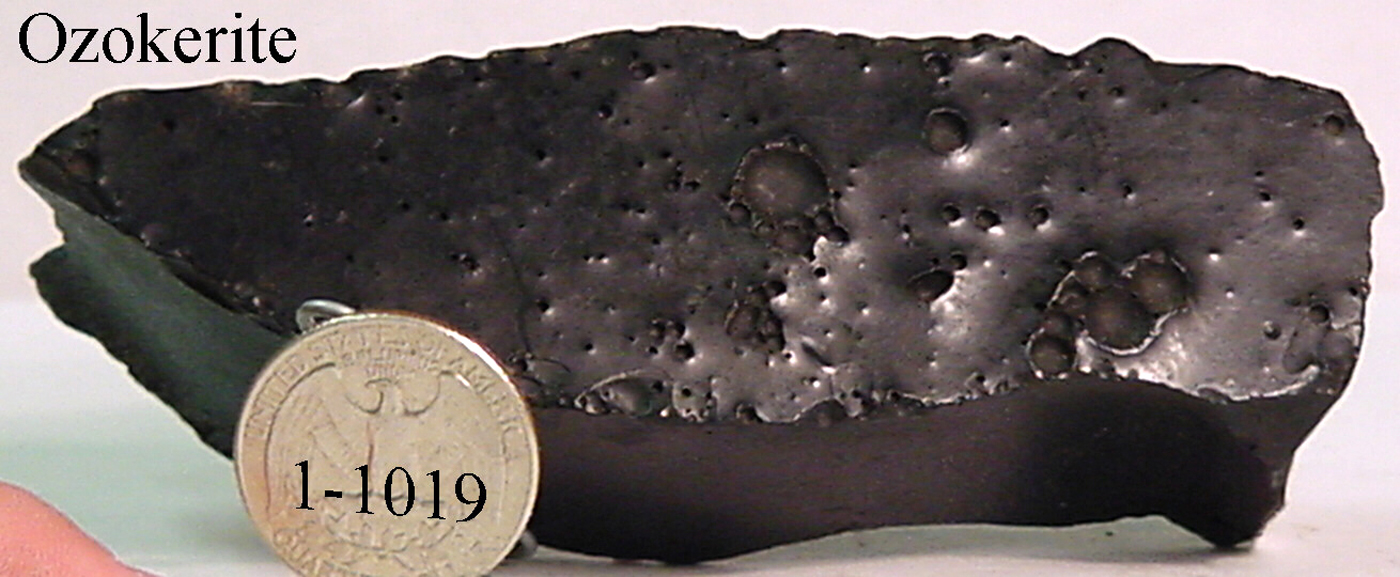 Ozokerite. U.S. quarter for scale, locality not given. Mineral collection of Bringham Young University Department of Geology, Provo, Utah. Photograph by Andrew Silver. BYU index 1-1019b. Image file